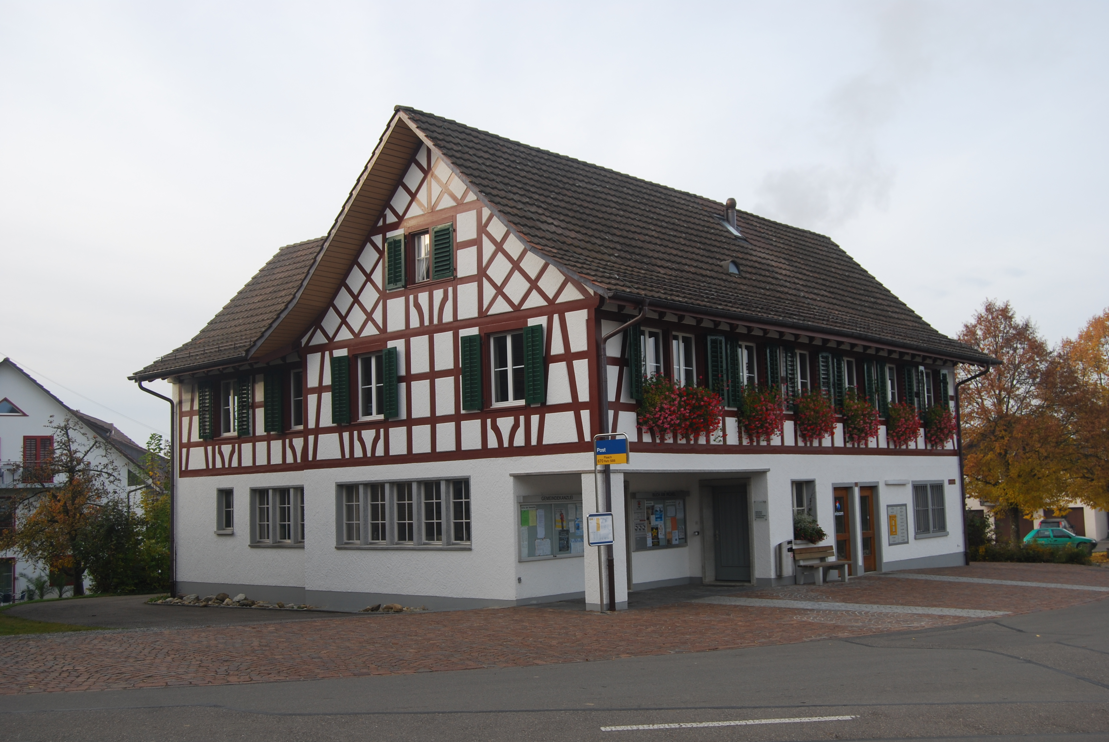 Municipal administration of Buch am Irchel, canton of Zürich, SwitzerlandEsperanto: Komunuma administrejo de Buch ĉe Irchel, Kantono Zuriko, Svislando